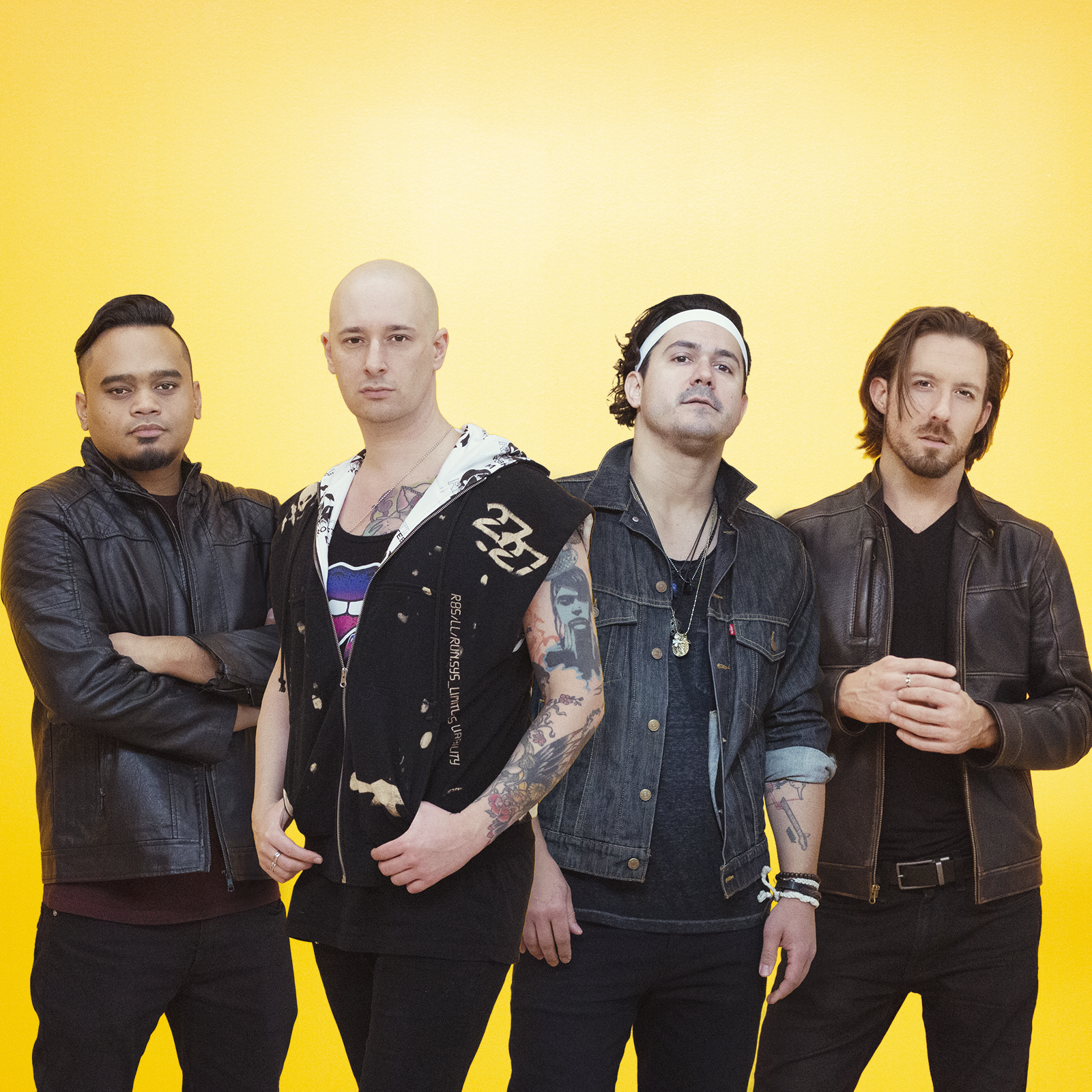 VATTICA – from left to right, Isaac Waters, Alexander Millar, Jonny Rosé and Ryan Linderman